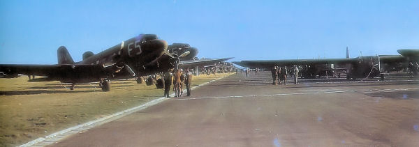 C-47s with Waco Gliders of the 314th Troop Carrier Group preparing for the Airborne drop over the Rhine during "Operation Varsity", March, 1945 (World War II)